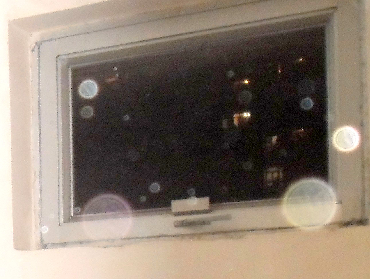 House Dust Orbs, photographed, and caused by Earth100.